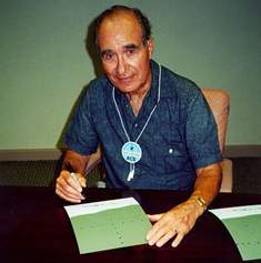 Spiros Pisanos now